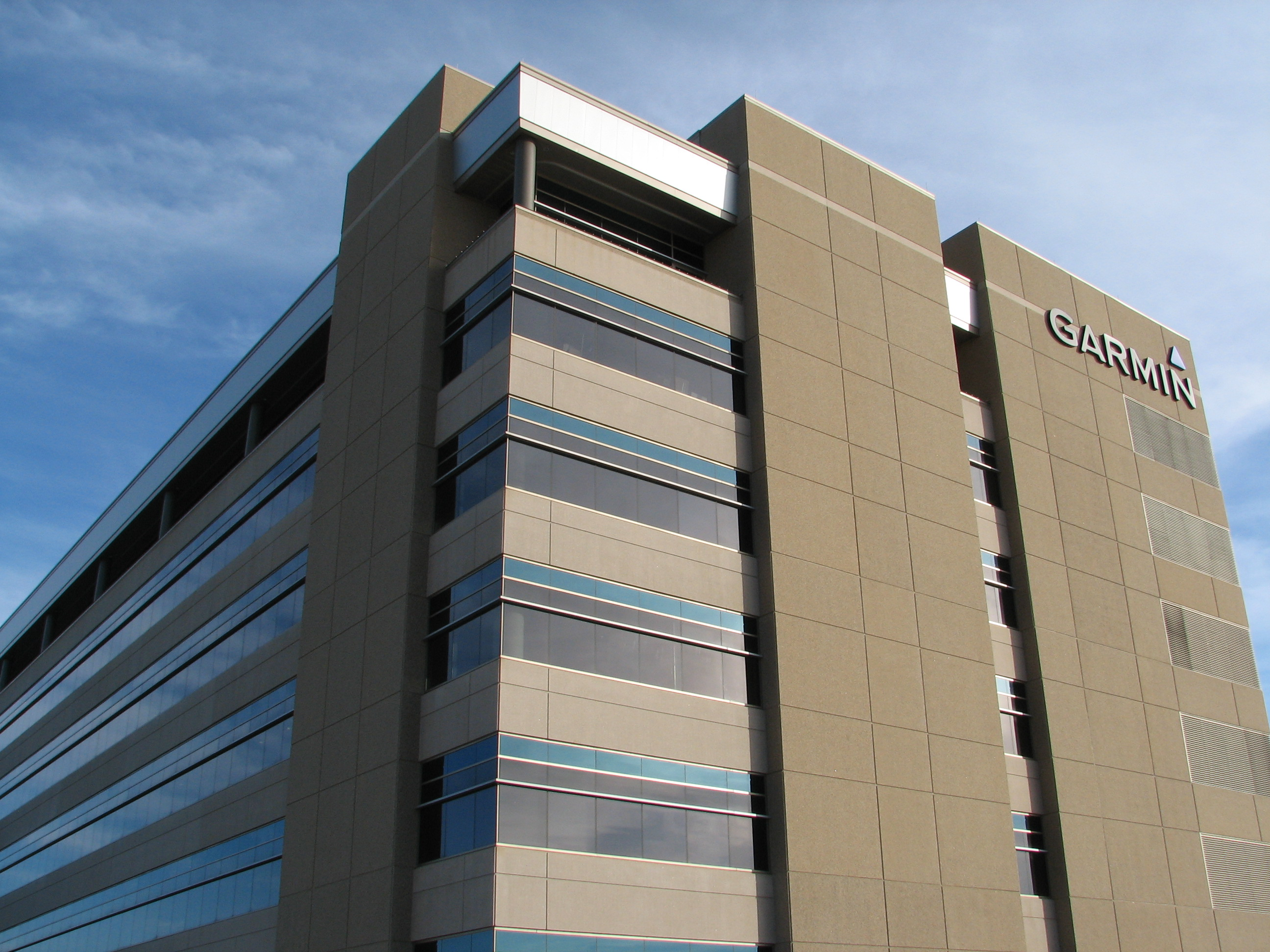 Photograph of Garmin Headquarters, located in Olathe, Kansas, USA.